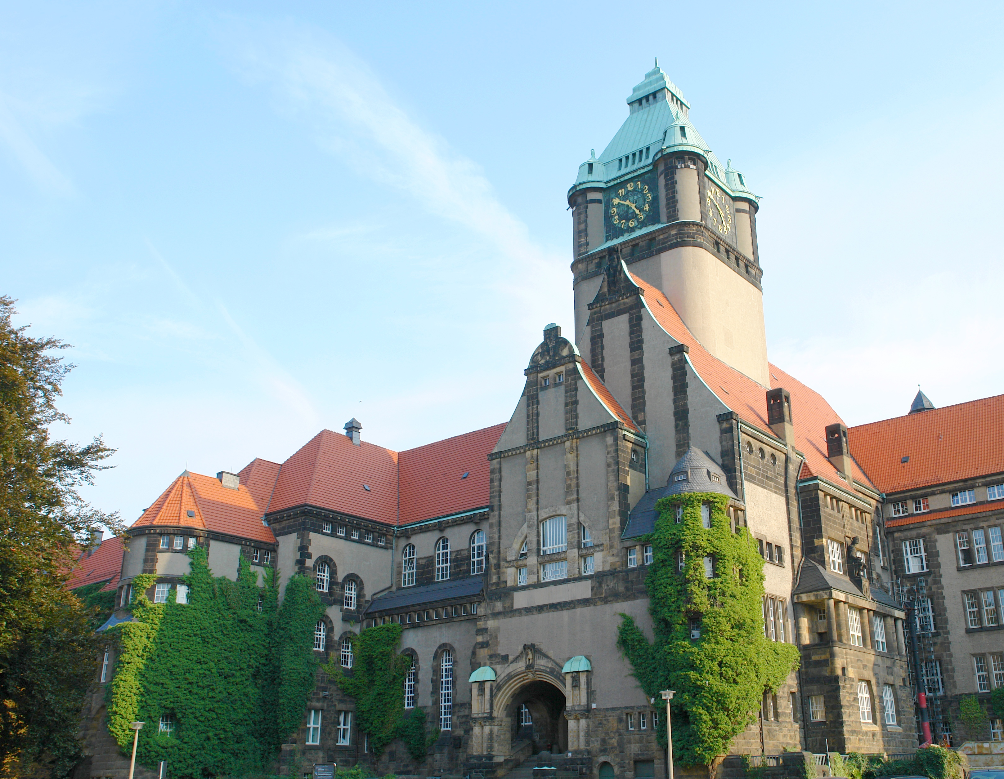 Georg-Schumann-Bau of the Technische Universität Dresden (Dresden University of Technology), Germany.